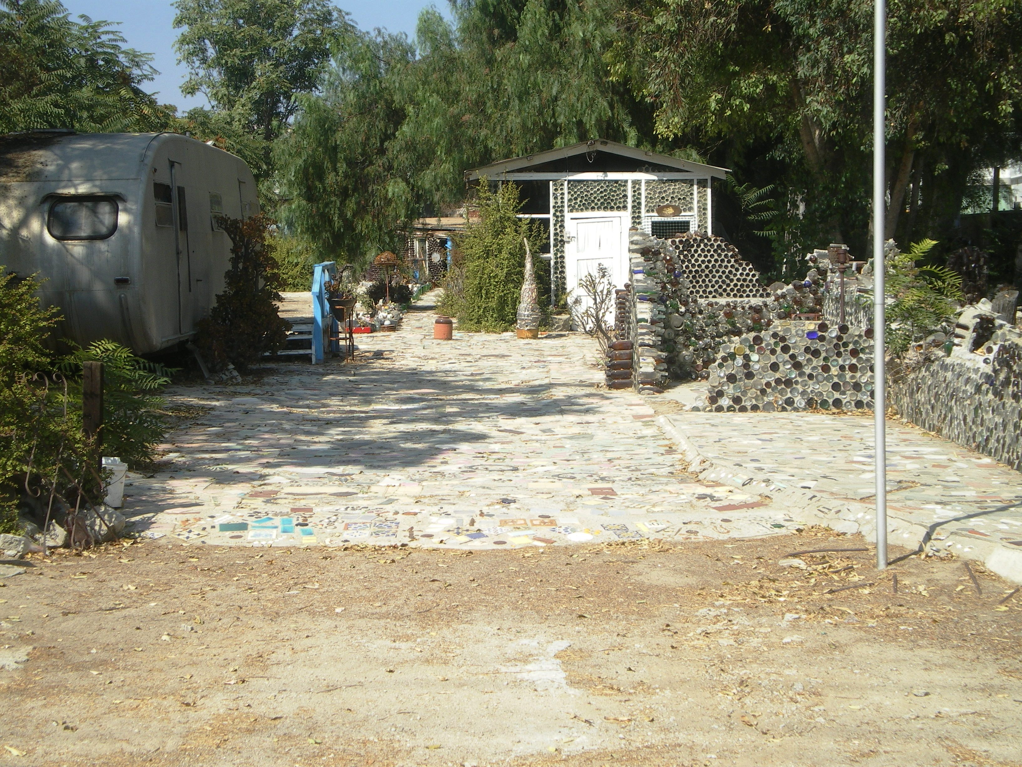 Grandma Prisbrey's Bottle Village, 4595 Cochran Street, Simi Valley, California